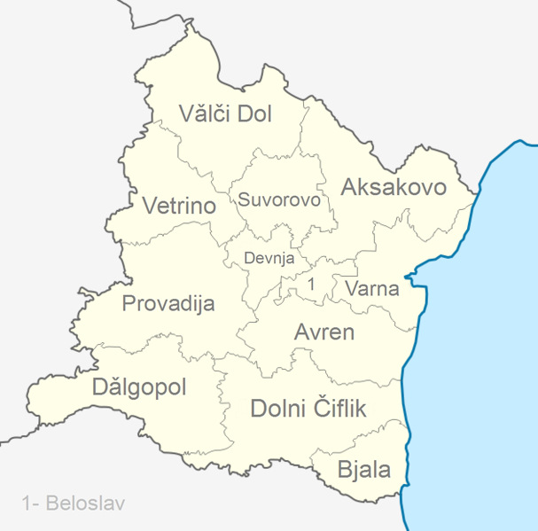 obstini-v-oblast-varna